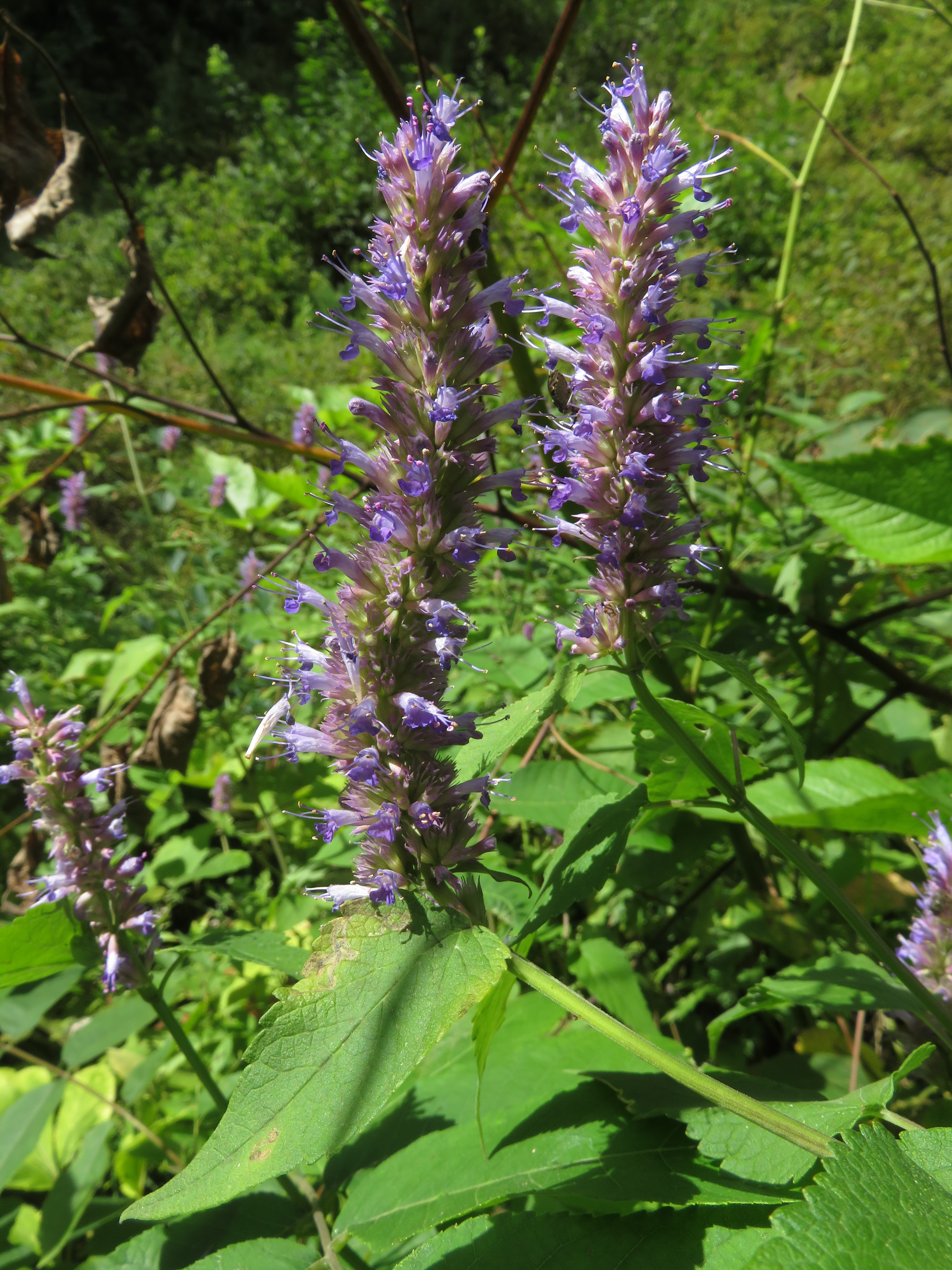 Agastache rugosa, Aizu area, Fukushima pref., Japan